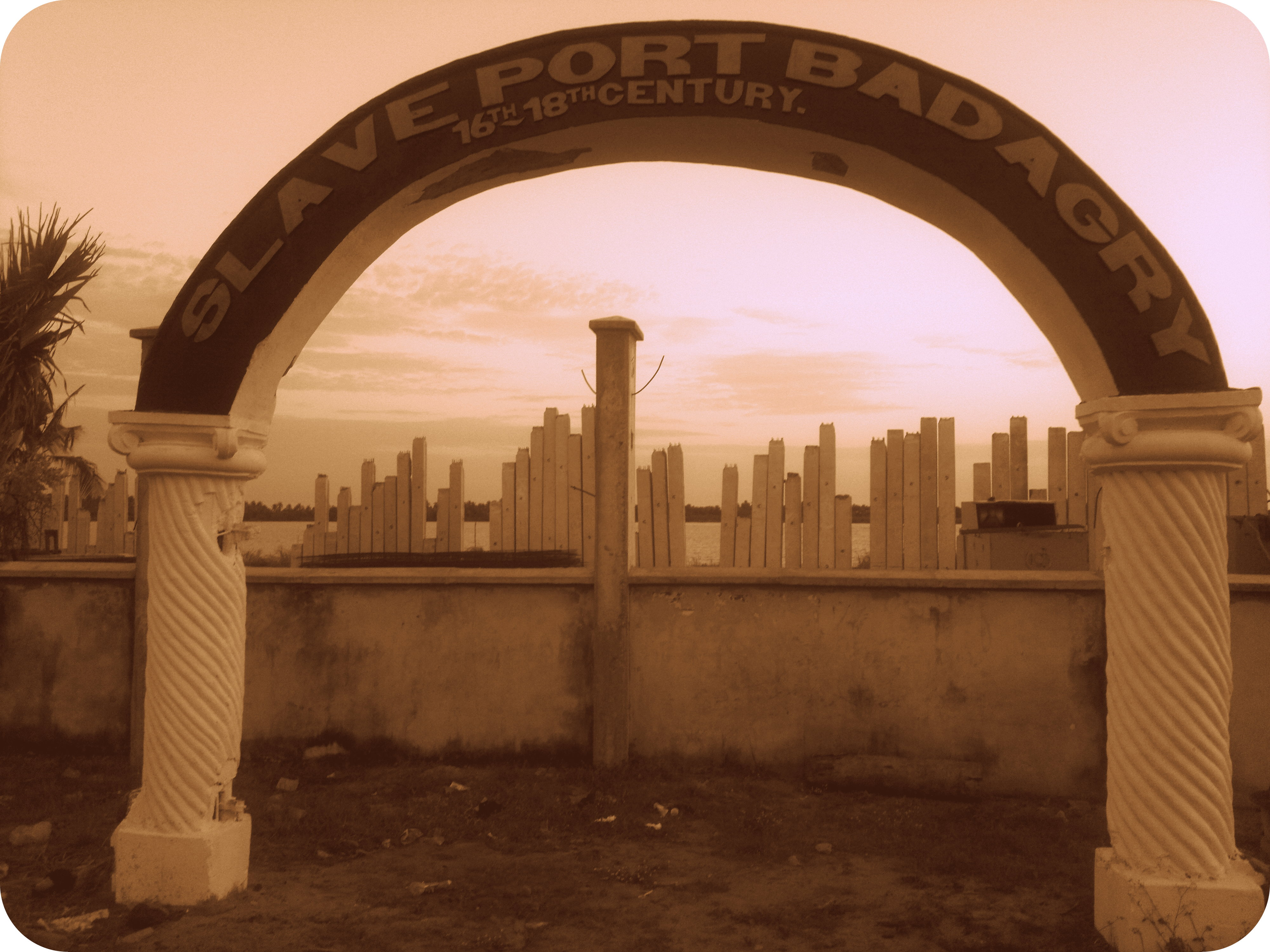 The Slave Port at Badagry is one of the momuments that evidenced man's inhumanity to man This is an image from Nigeria